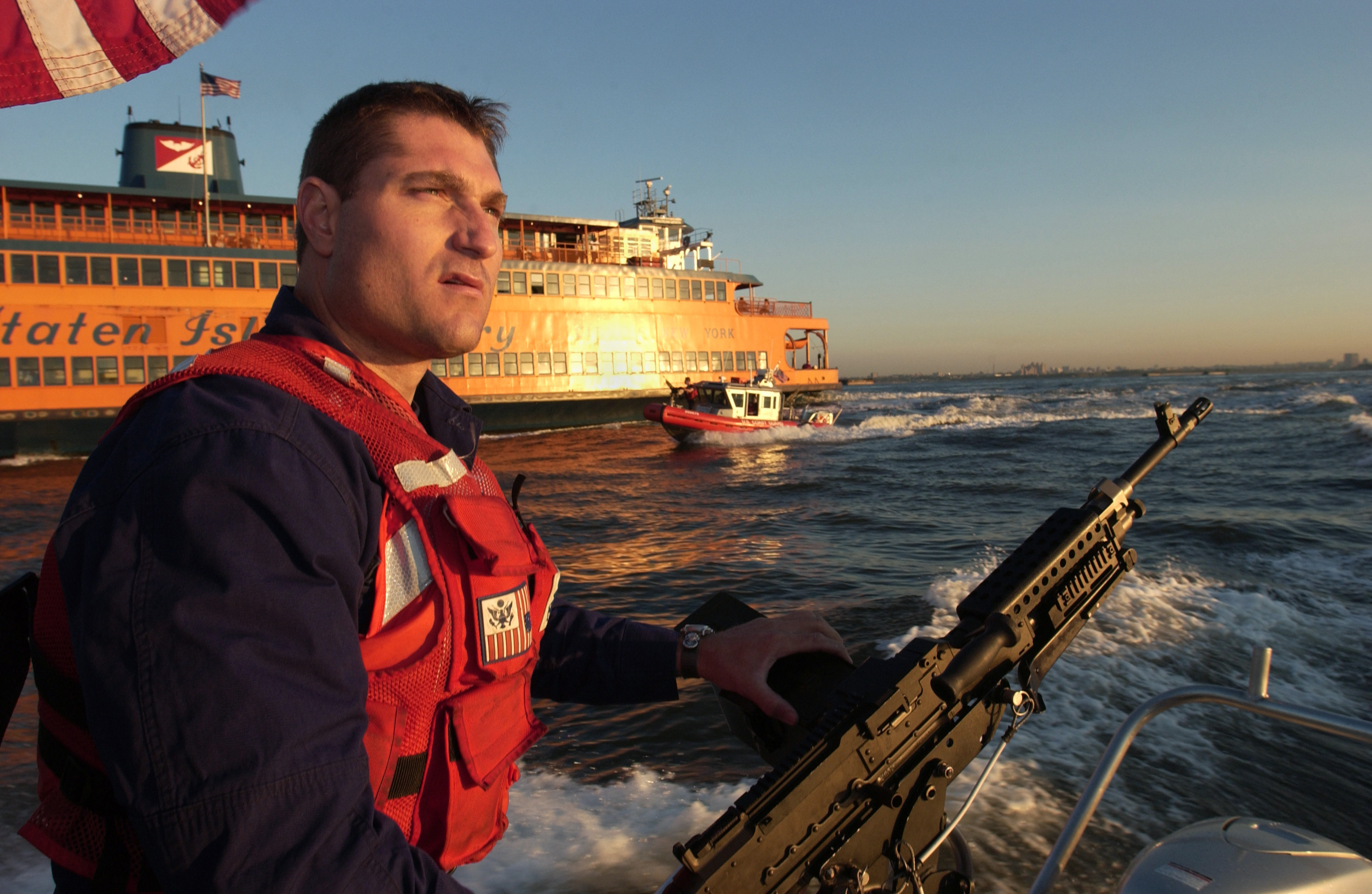 New York (Sept. 1, 2004) - Petty Officer 3rd Class Maurice Orlando, from San Diego, Calif., keeps a sharp eye on boat traffic while security boats from Coast Guard Maritime Safety and Security Team 91106 escort Staten Island ferries during the morning rush hour. The U.S. Coast Guard is leading the multi-agency waterside security effort around Manhattan during the Republican National Convention. U.S. Coast Guard photo by Public Affairs Specialist 1st Class Matthew Belson (RELEASED)